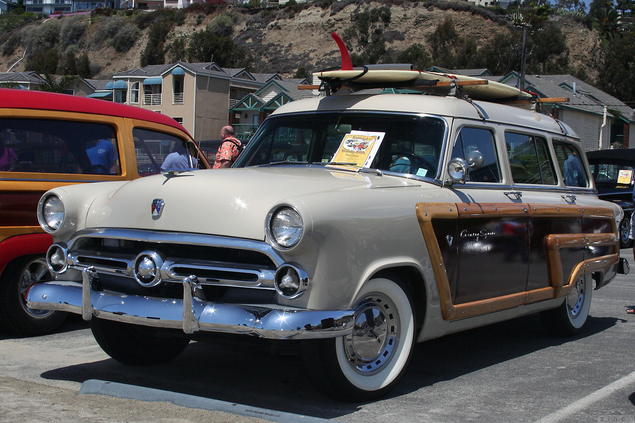 Woodie Club, Doheny, CA, Apr 22, 2007